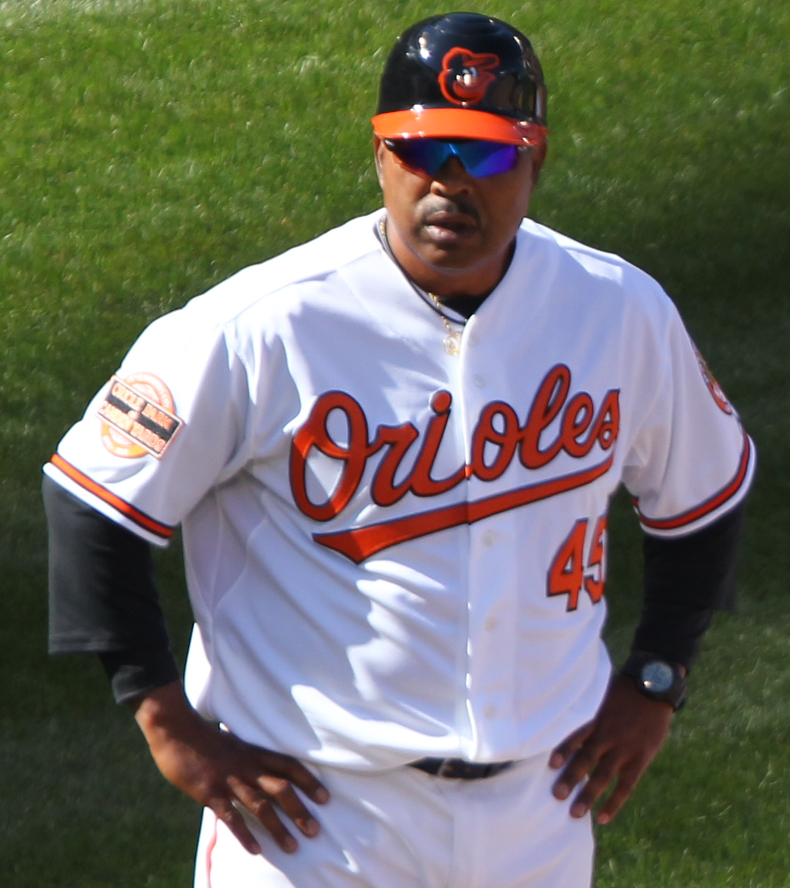 Baltimore Orioles third base coach DeMarlo Hale - Twins at Orioles April 6, 2012